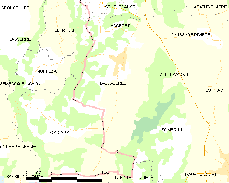 Map of French municipality